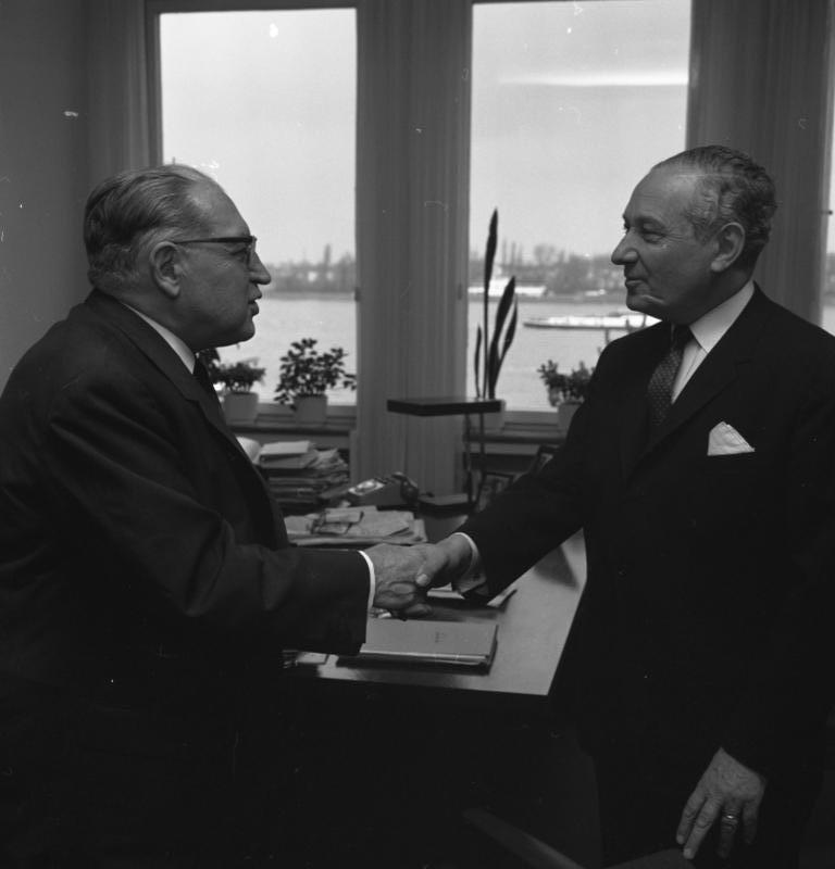 Bundestagsvizepräs. Dr. Dehler empf. Prof. Silberman Präs. der American Federation of Jews from Central Europe